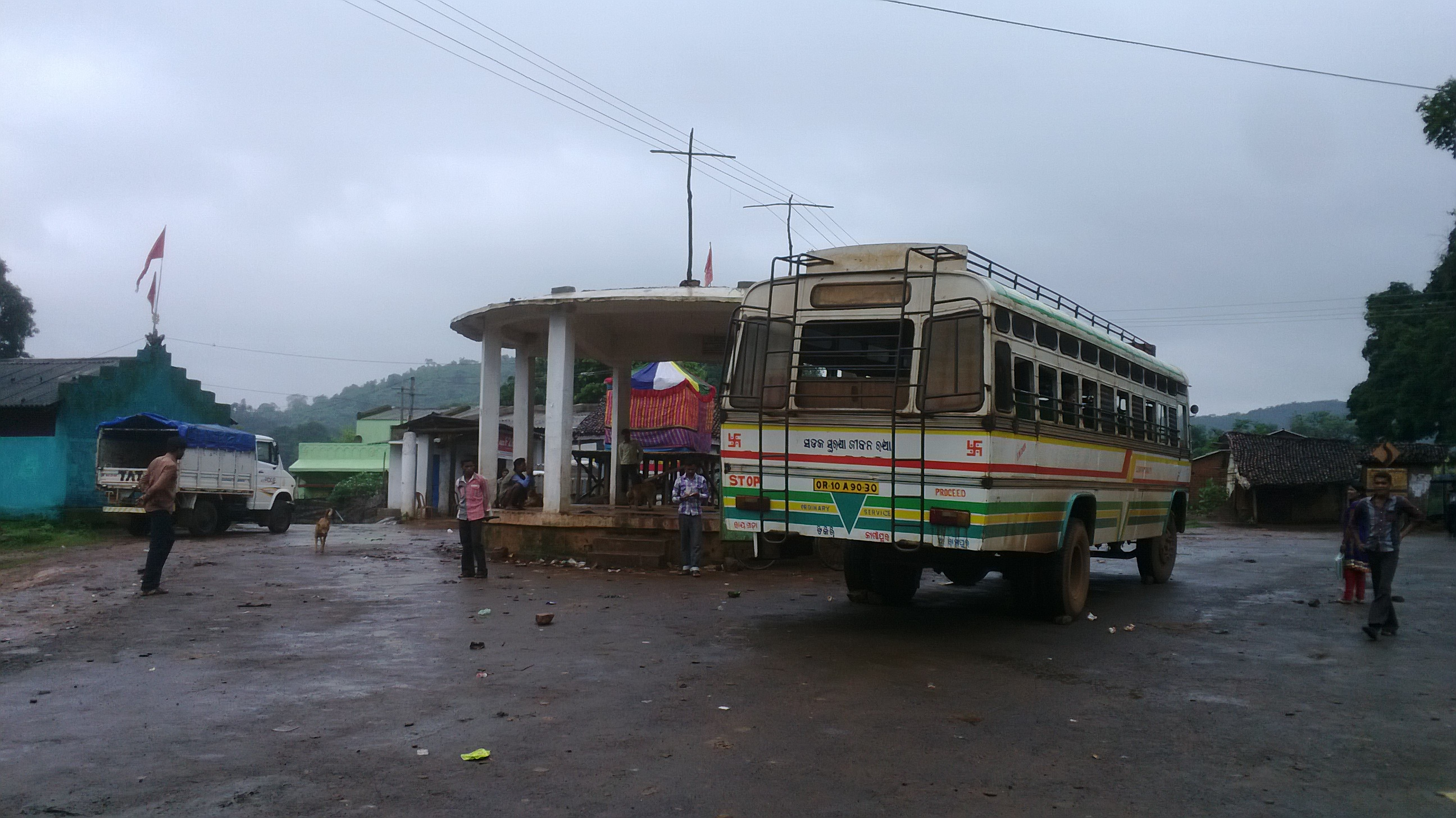 Th. Rampur Bus Stand